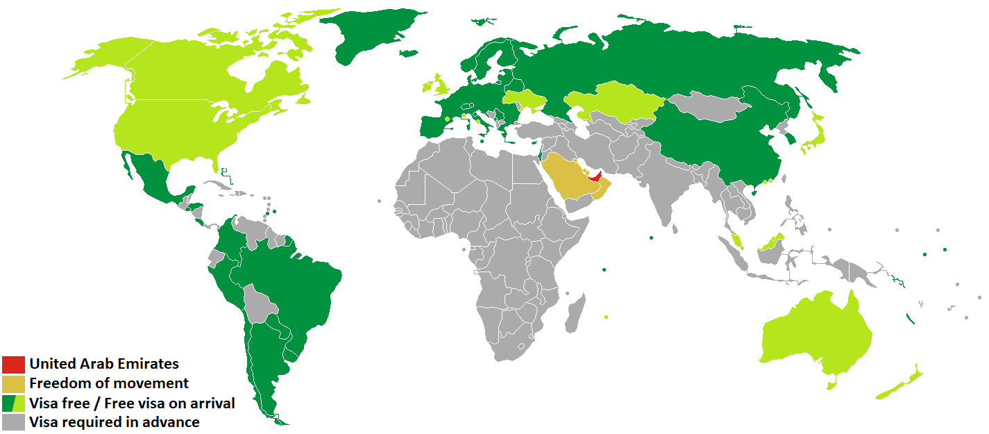 Visa policy of United Arab Emirates United Arab Emirates Freedom of movement Visa-free or free visa on arrival Visa required